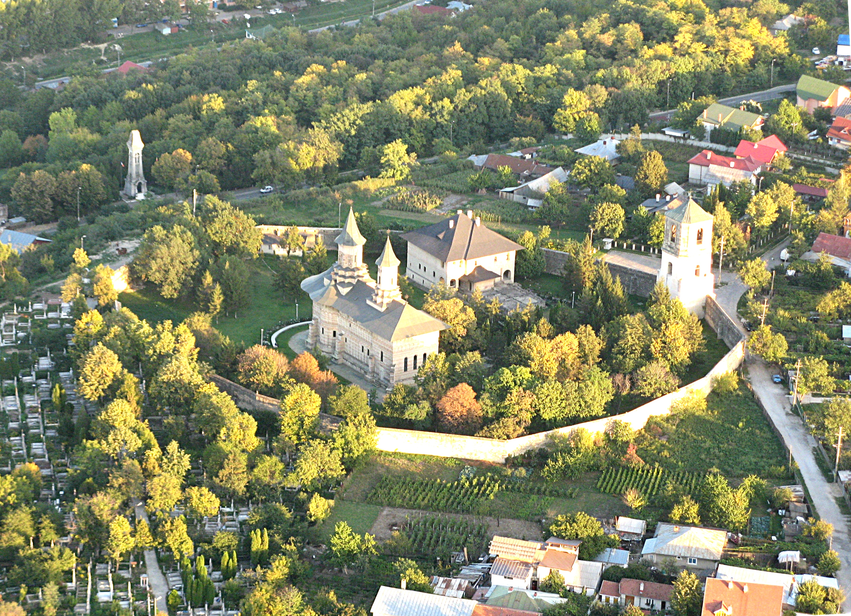 Manastirea Galata